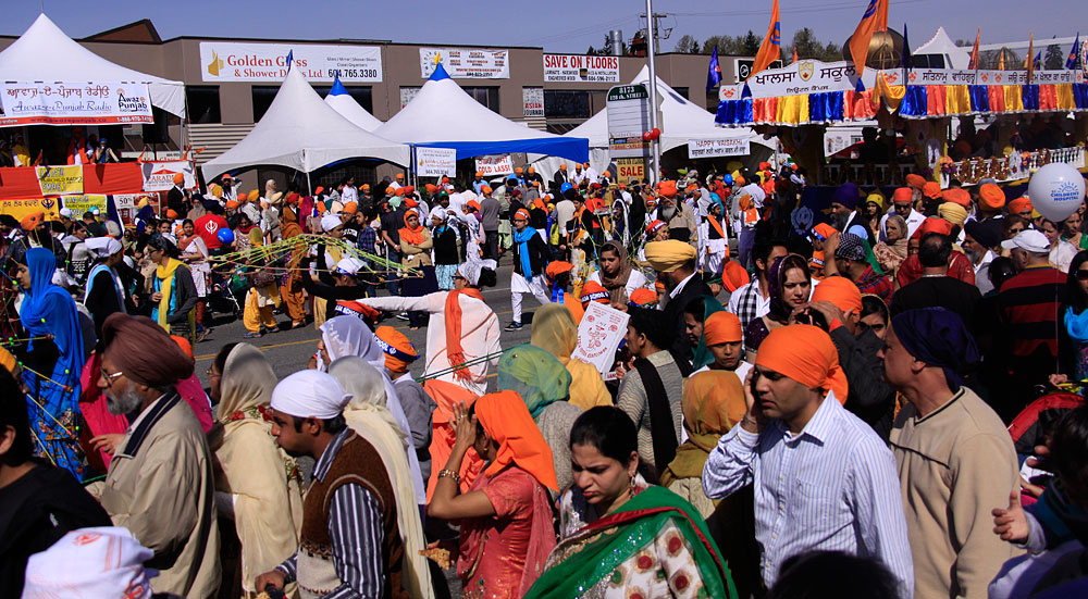 Parade and fair are a part of the Sikh Baisakhi tradition